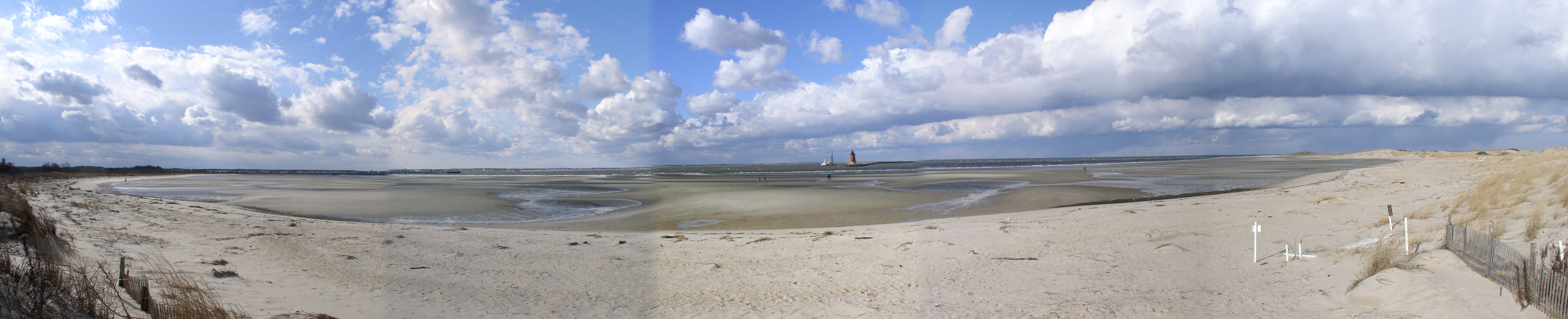 A panorama of the tidal flat at Cape Henlopen State Park, Delaware, at low tide in January 2009. This is on the west side of Cape Henlopen Spit.